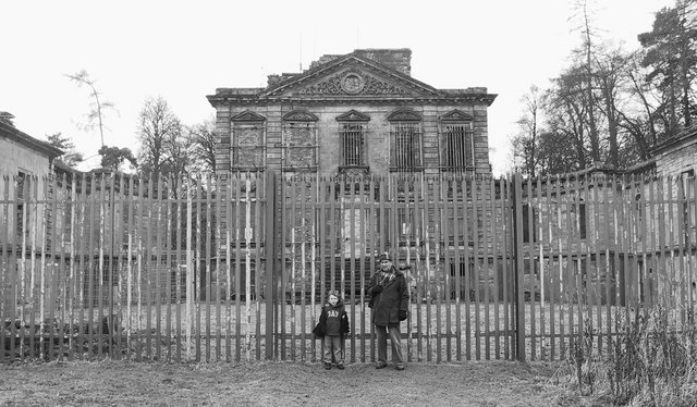 Mavisbank